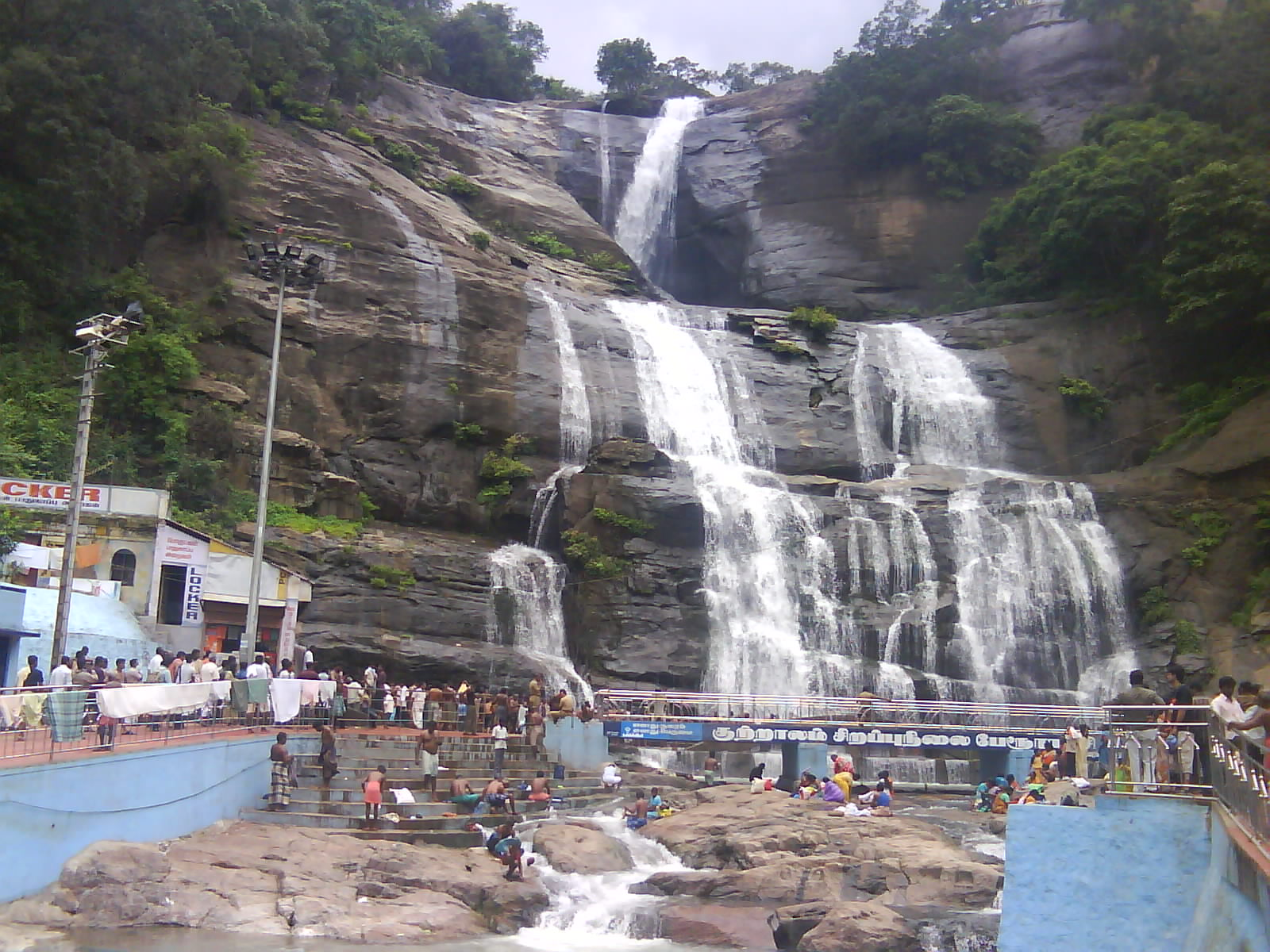 Courtallam Main Falls, One of the important tourist place at Tirunelveli District.